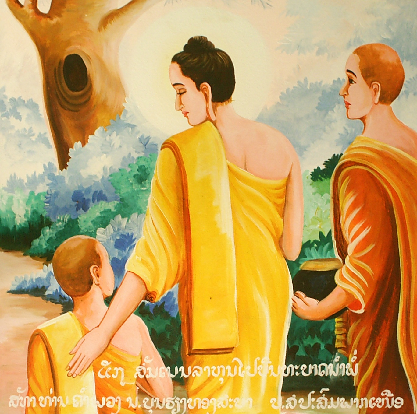 Buddha gives a teaching to his son and novice-monk Rahula during pindabat (walking almsround in the village or city), on the value of truthfulness and abstaining from speaking untruths.